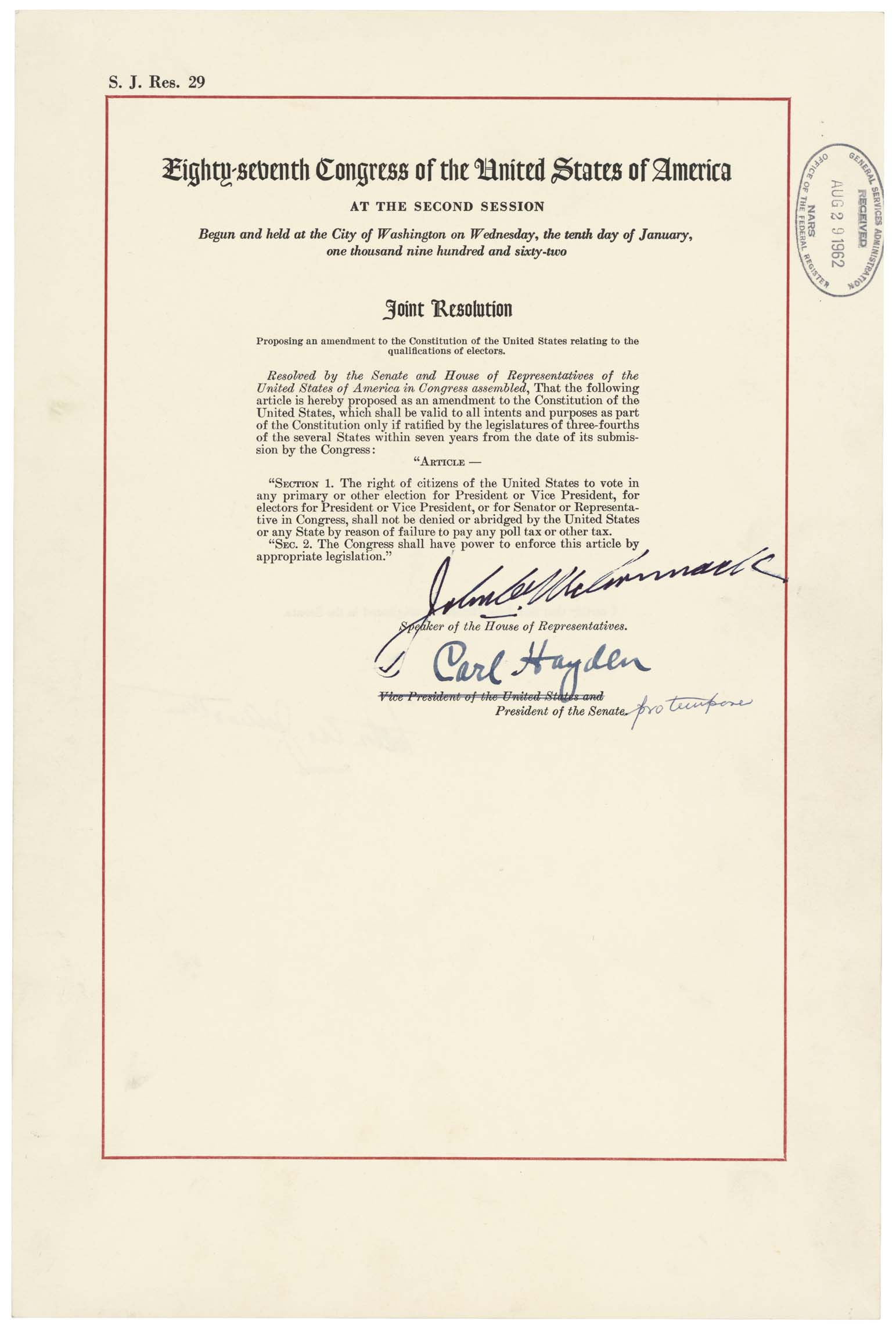 Joint Resolution Proposing the Twenty-fourth Amendment to the United States Constitution.